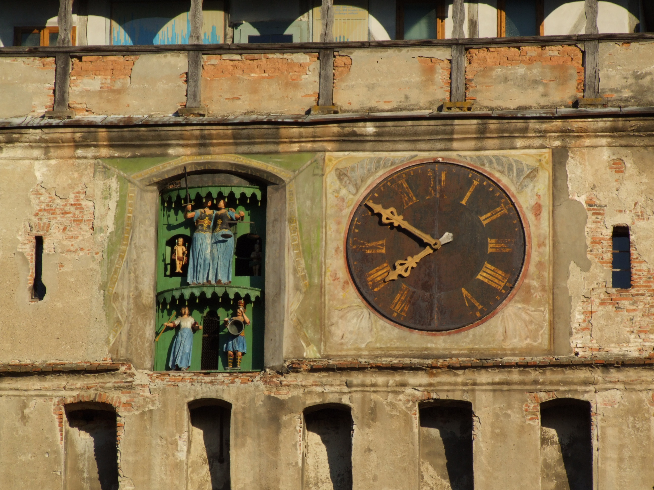 Sighişoara (Segesvár, Schäßburg) - clock on the Clock Tower